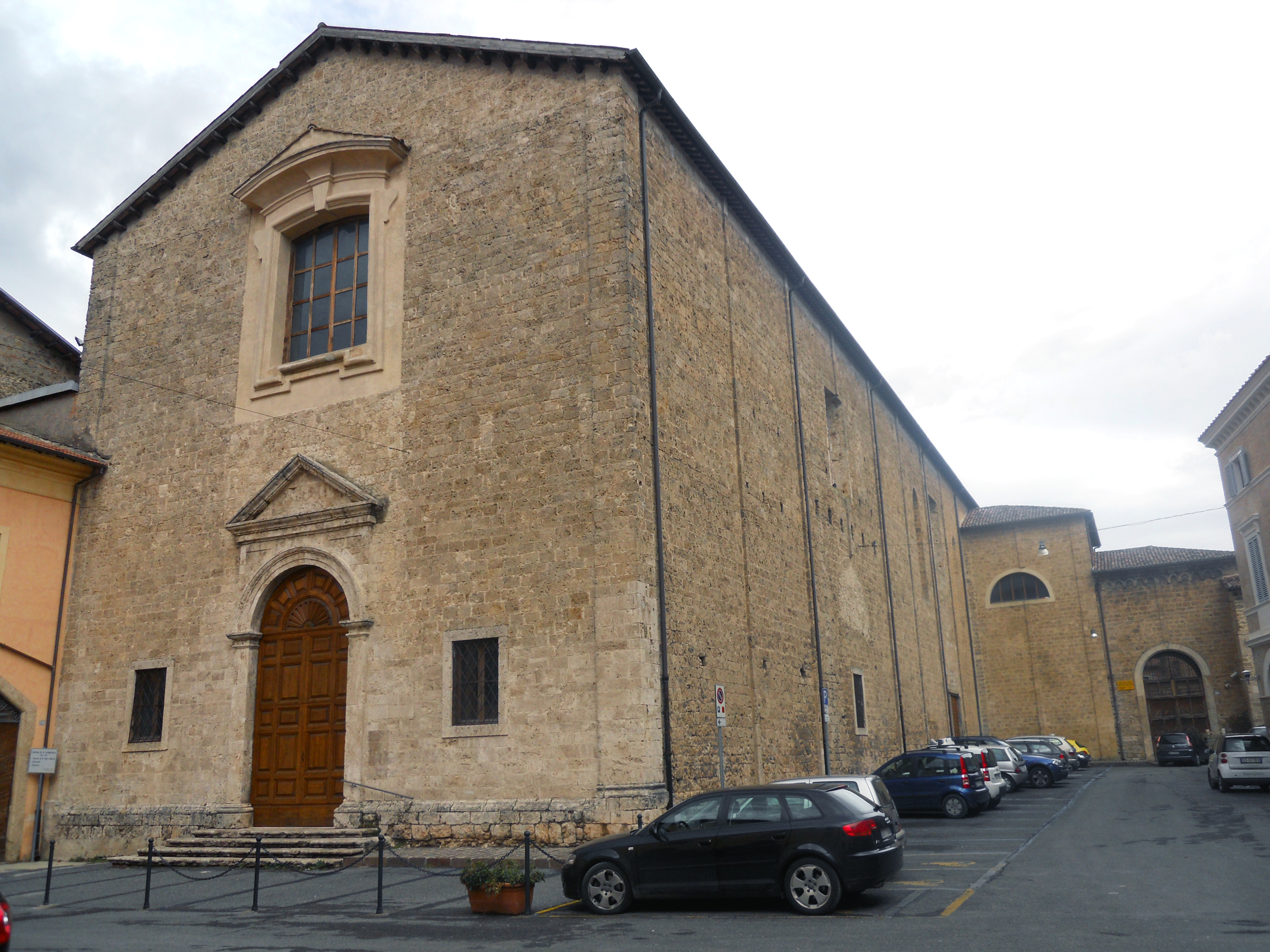 Church of St. Domenico in Beata Colomba square, Rieti, Italy